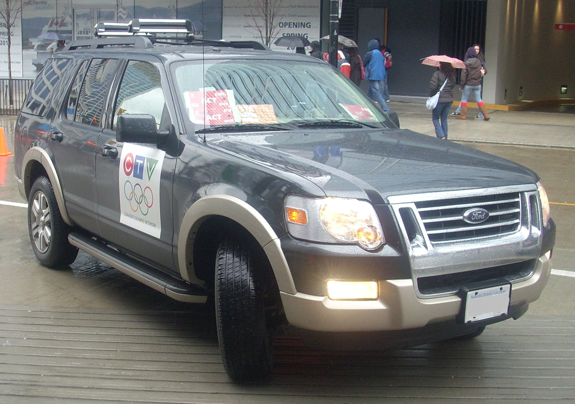 2009-present Ford Explorer CTV Vancouver photographed in Vancouver, British Coumbia, Canada at the 2010 Winter Olympics.